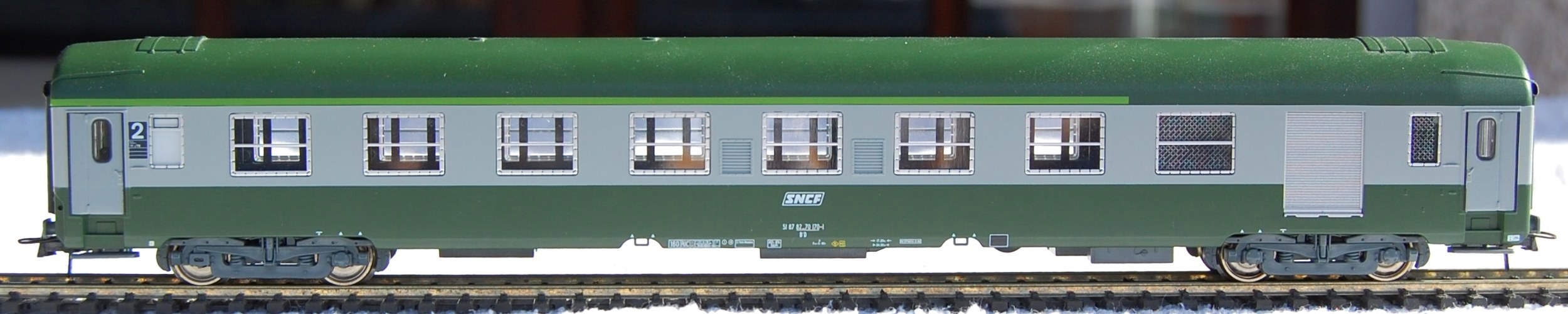 UIC-Y coach B7D (ex A7D), SNCF, France. HO scale model by Roco. Modèle réduit Roco d'une voiture UIC B7D (ex A7D), SNCF, France.